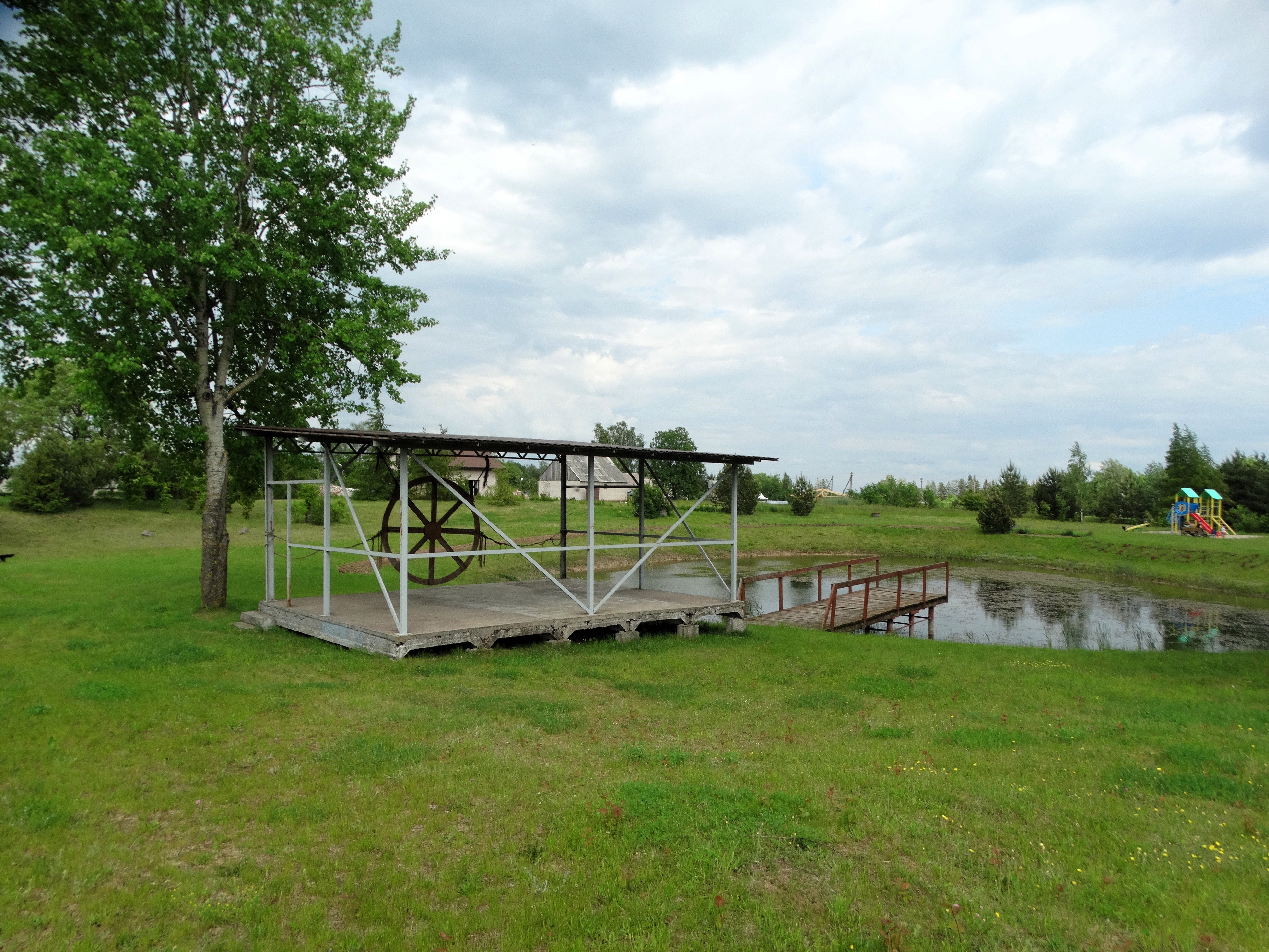 Panoteriai, Jonava district, Lithuania